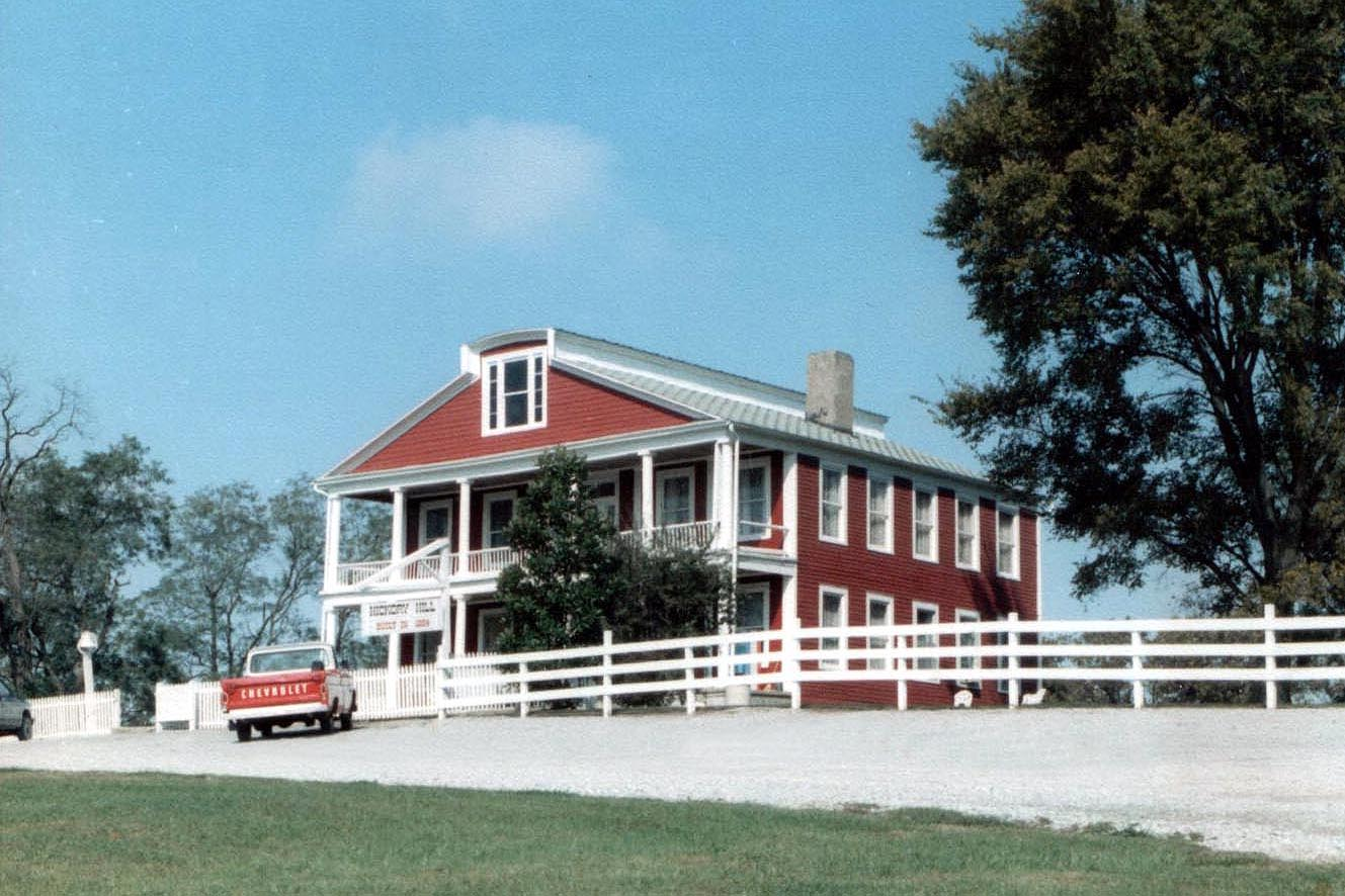 Photograph of the Crenshaw House, more commonly known as the Old Slave House, near Equality in Equality Township, Gallatin County, Illinois. Taken in the late 1970's by Kenneth Dwain Harrelson.